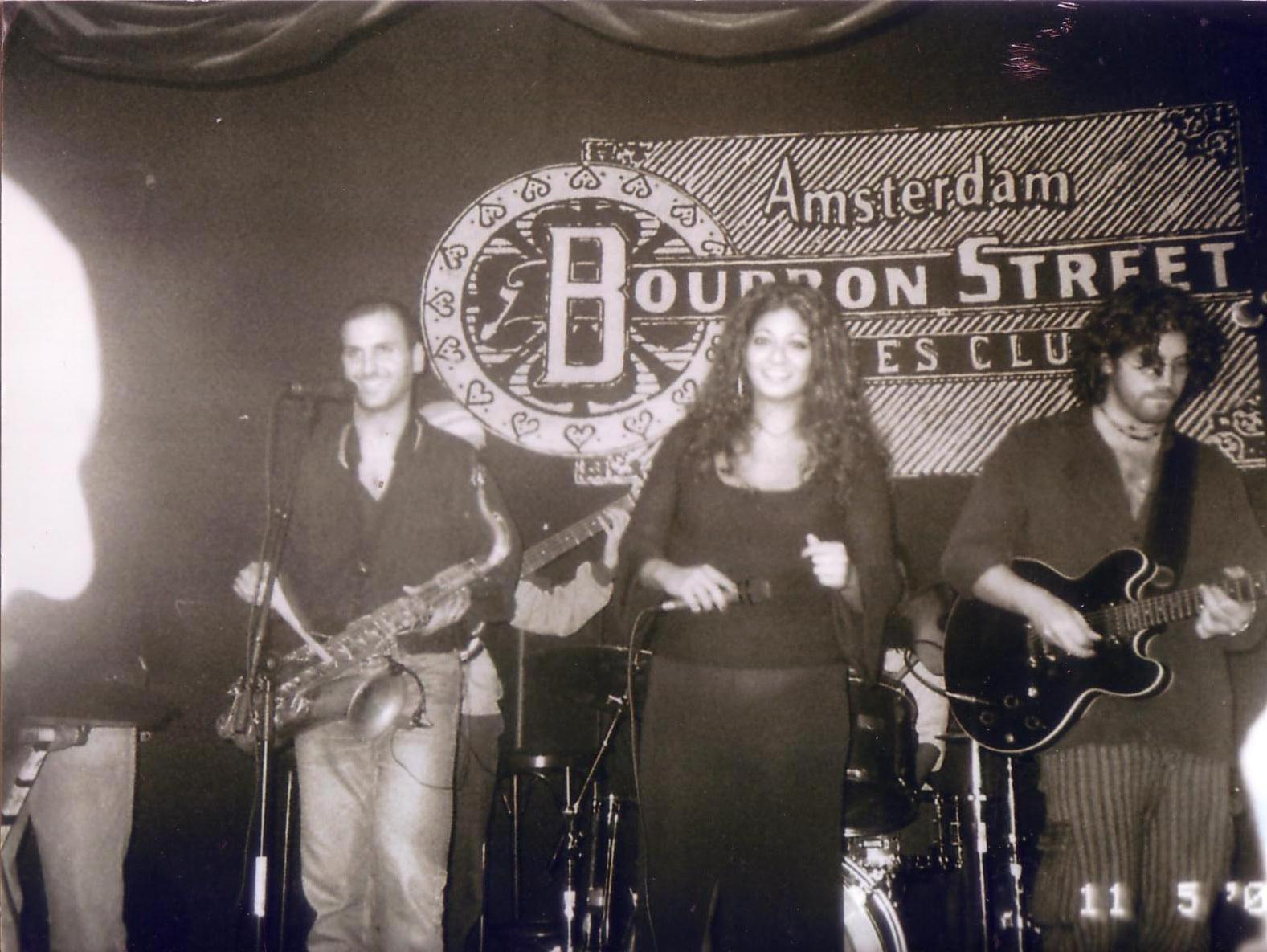 Rouba singing at Bourbon Street in Amsterdam...